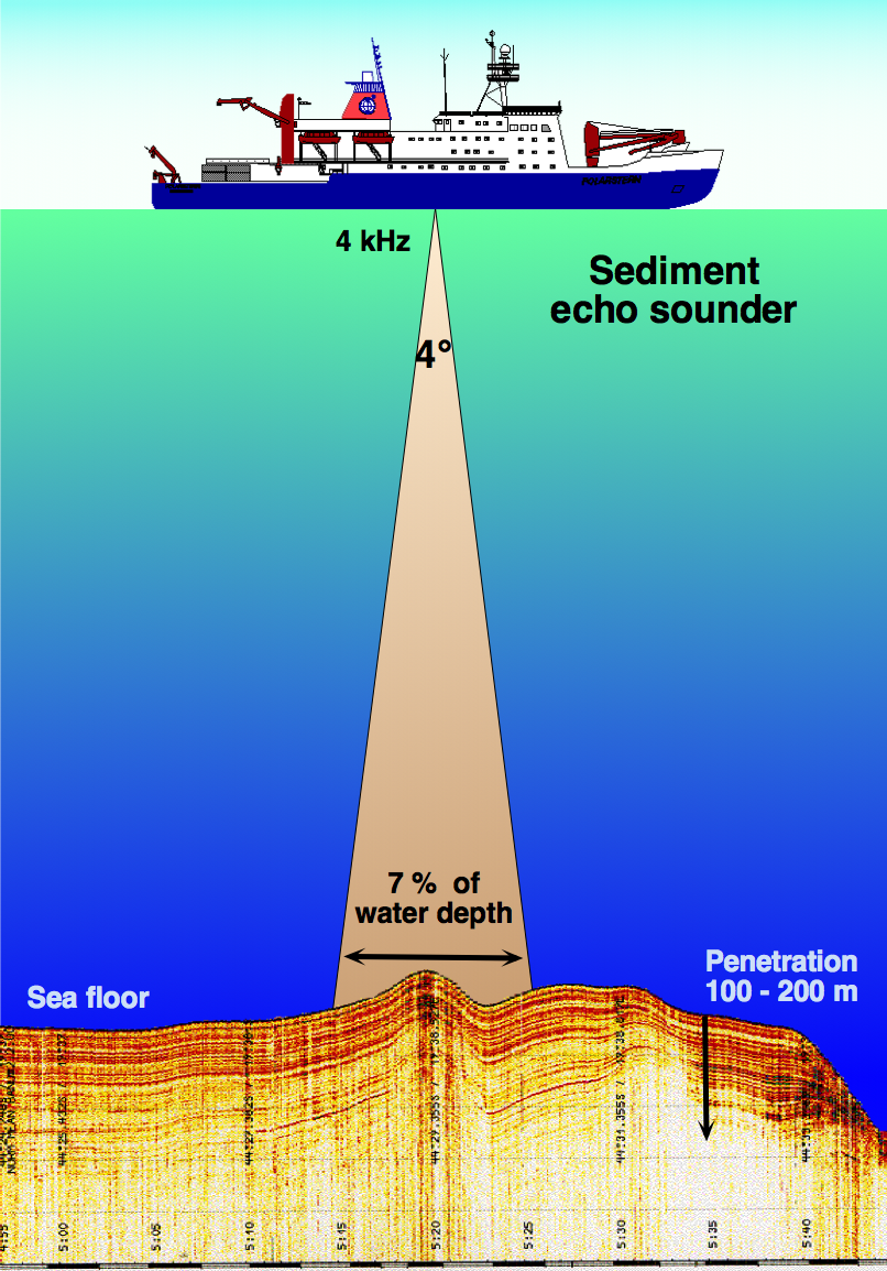 Principle of sediment echo sounding. A narrow beam of high energy and low frequency (ab. 3.5 kHz) submitted by the research vessel to the sea floor is reflected by the various layers, providing information about hardness and structure of the sediments. Used by marine geologists as a pre-site survey to find suitable locations for sediment coring.